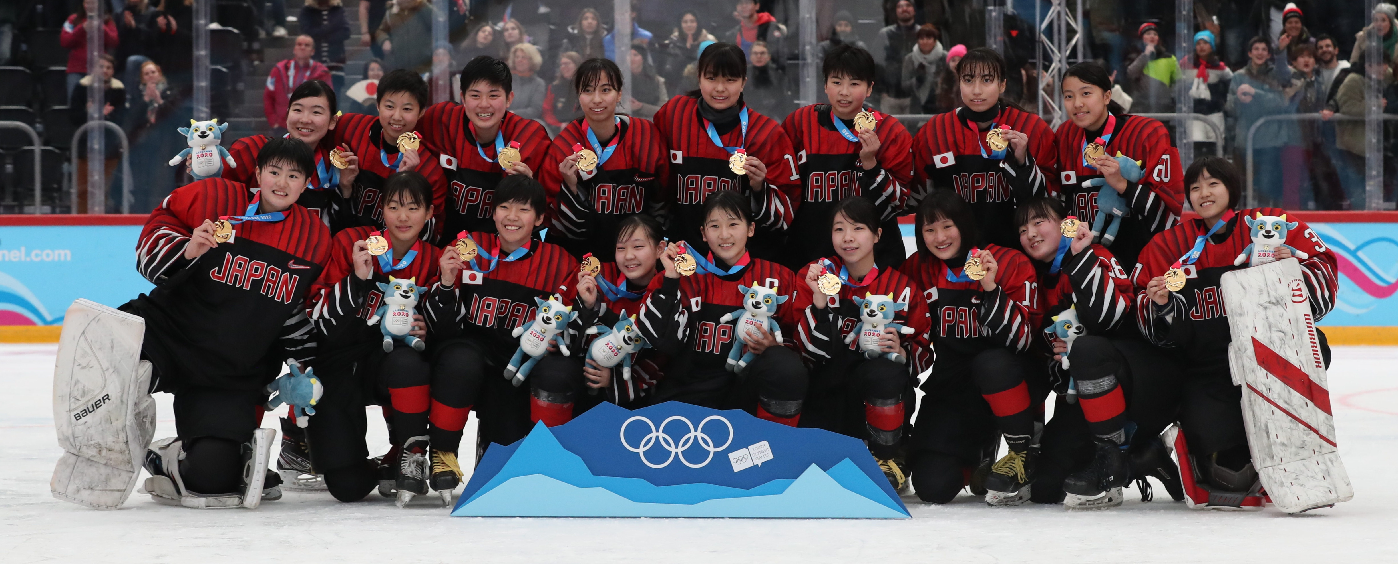 Victory Ceremony (Mascot and Medal Ceremony) at the Women's Ice Hockey Tournament at the 2020 Winter Youth Olympics in Lausanne: Japan (Gold medal), Sweden (Silver medal) and Slovakia (Bronze medal)